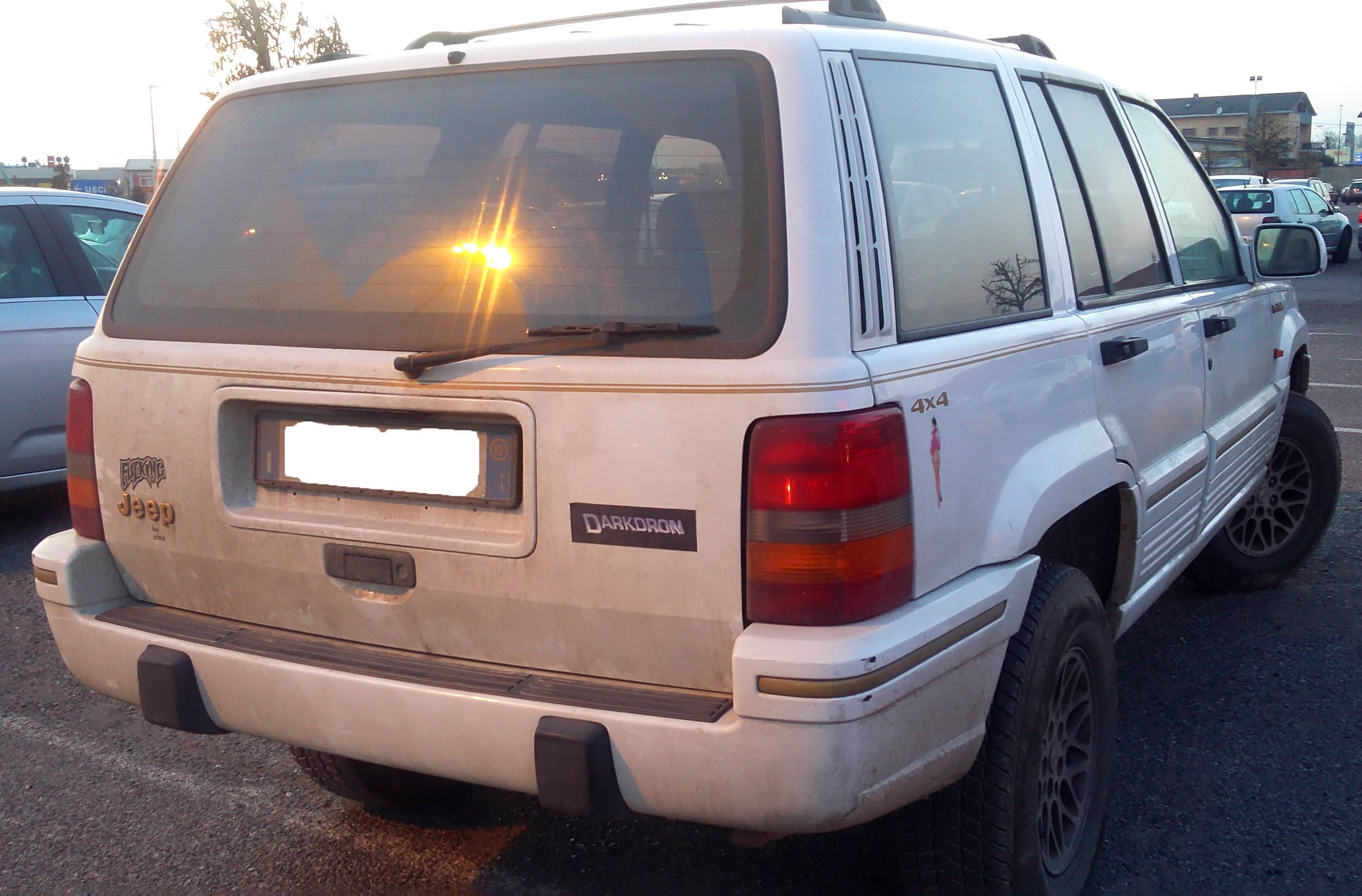 1992-1998 Jeep Grand Cherokee ZJ, rear